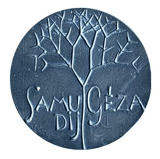 Geza Samu prize